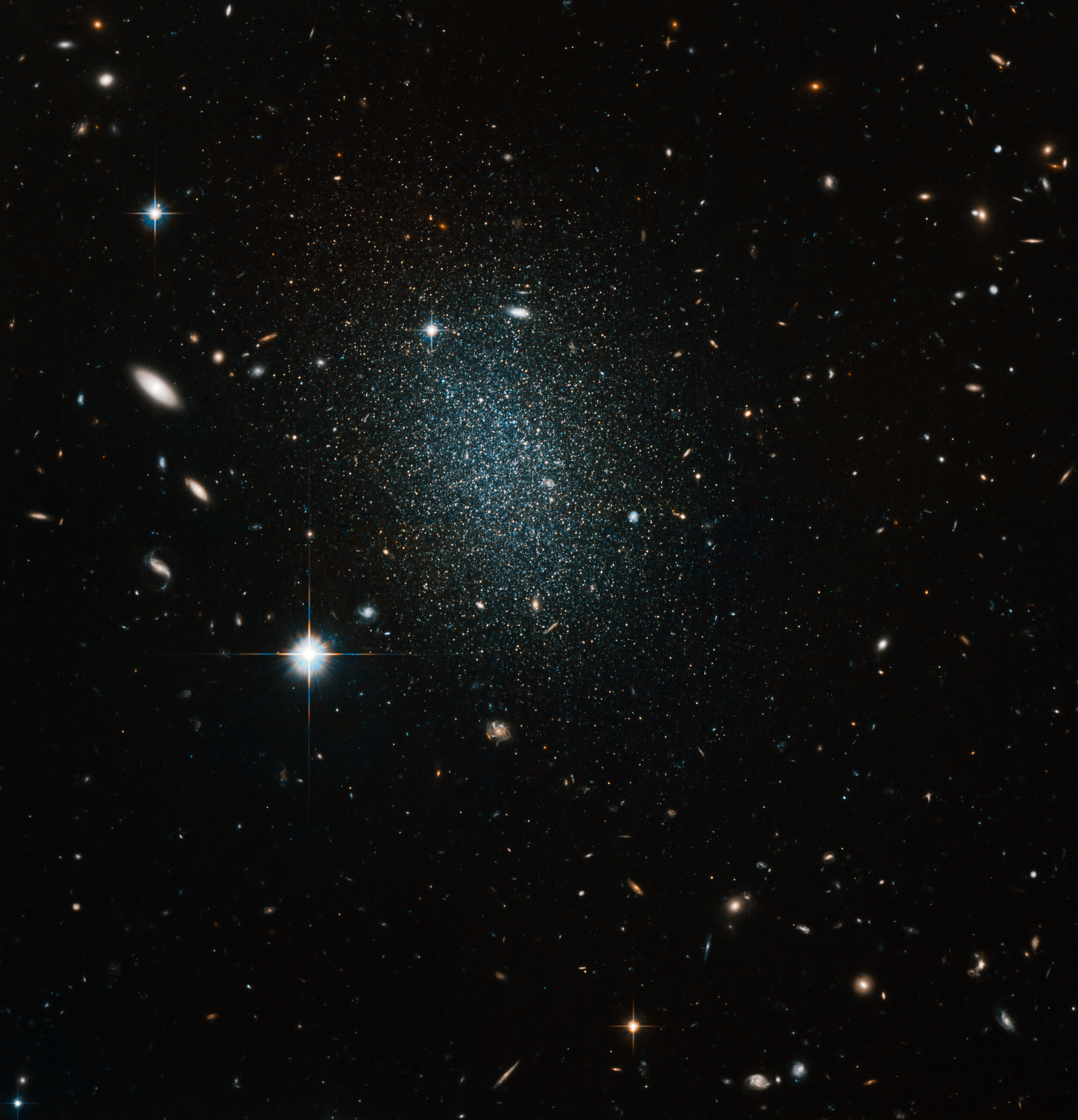 Peering into the depths of space, the sharp-eyed NASA/ESA Hubble Space Telescope has imaged the nearby but faint dwarf galaxy ESO 540-030. This object itself appears as a huge swarm of dim stars, but ESO 540-030 is actually just one point of interest in the picture. ESO 540-030 is just over 11 million light-years distant, and is part of the Sculptor group of galaxies. This collection is the closest neighbour to our own Local Group of galaxies that includes the Milky Way. Due to its proximity the Sculptor group contains some of the brightest galaxies in the southern skies, although ESO 540-030 is not one of these; dwarf galaxies generally have low surface brightness, which make observations difficult. Hubble has captured a snapshot of galaxy types in the background, with spirals, barred spirals, ellipticals and irregulars on display. Careful examination of this picture should allow examples of each galaxy type to be found. Some galaxies lie directly behind ESO 540-030, increasing the challenge. As well as the galaxies there are also five bright stars, which are much closer to us than the galaxies. The telltale diffraction spikes — four sharp lines of light emanating at 90 degree angles, caused by light diffracting in the telescope — are unmistakable signs of the stars in the picture. Cataloguing galaxy types is an important task for scientists attempting to understand more about how our Universe evolved. Our own eyes are excellent tools for this, as participants of the Galaxy Zoo Hubble project will confirm [1]. This picture was created from images taken with the Wide Field Channel of Hubble’s Advanced Camera for Surveys. Images through a yellow-orange filter (F606W, coloured blue) were combined with images taken in the near-infrared (F814W, coloured red). The total exposure times were 4480 s and 3360 s, respectively and the field of view is about 3.1 arcminutes across.